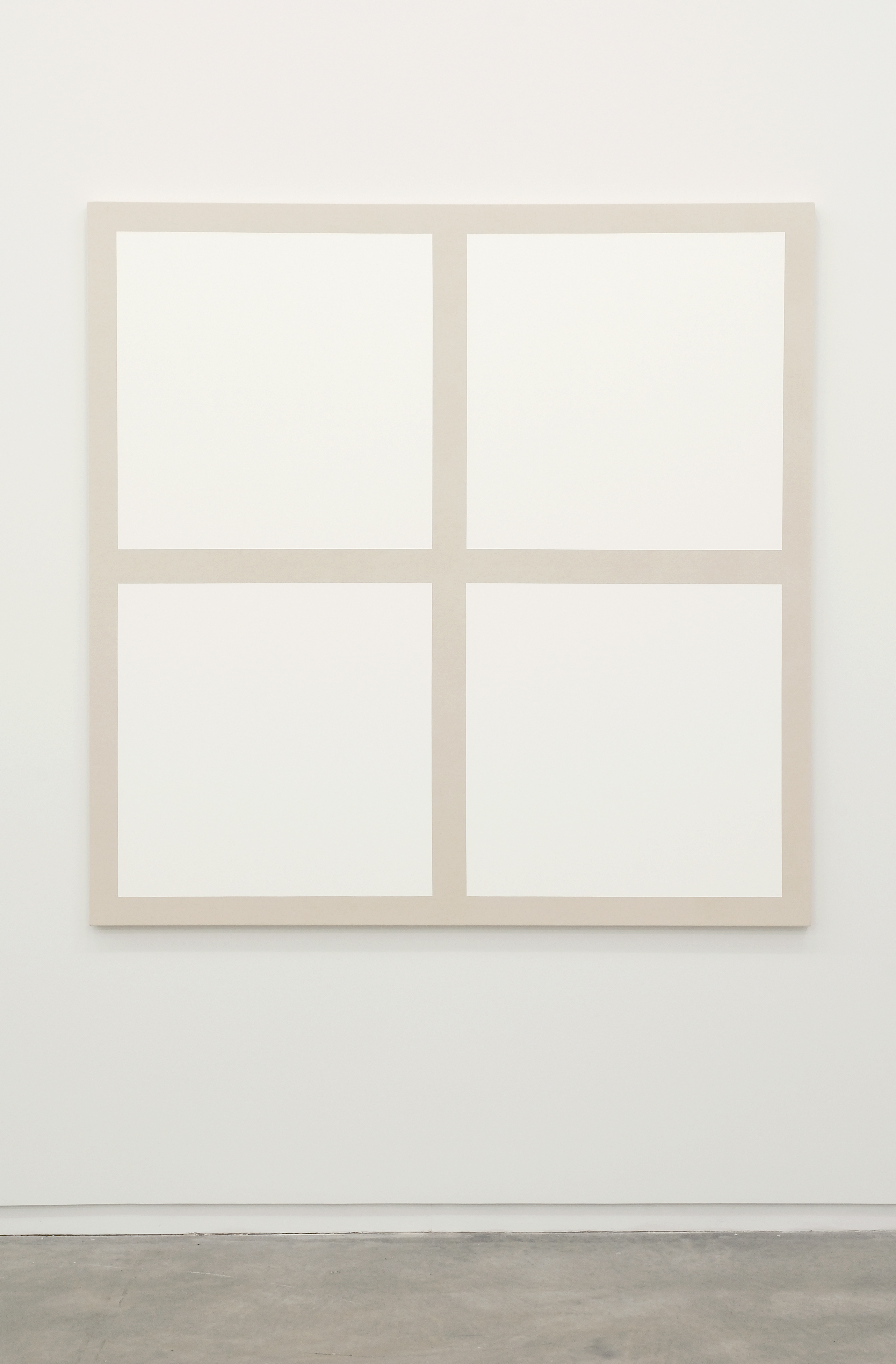 The Physical Facts Series of paintings depict an exact double of the support structure that lies beneath the canvas. The unpainted area traces the outline of the stretcher bars while the white paint represents the areas of unsupported canvas. Acrylic on canvas 60" x 60"